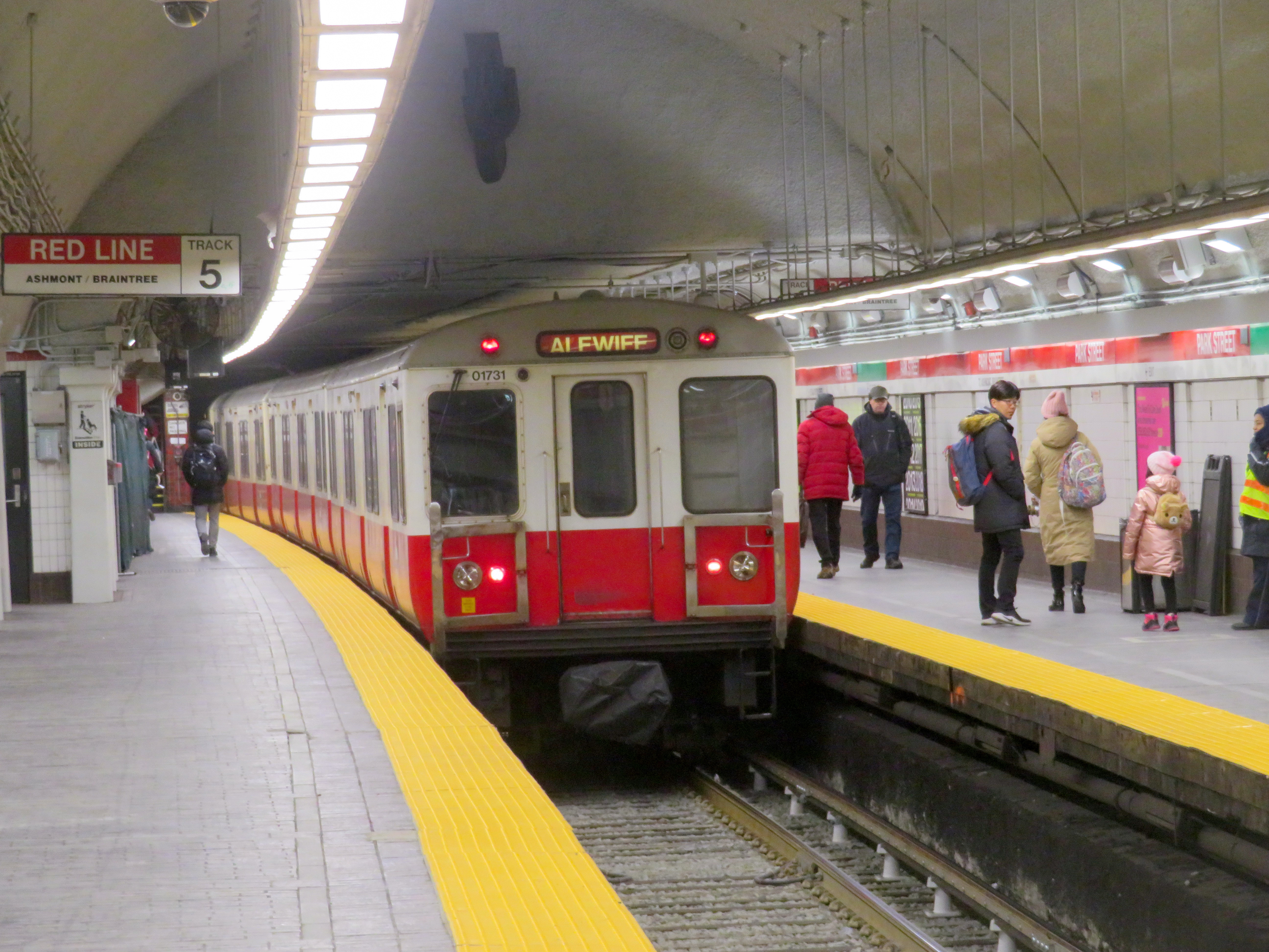 A southbound Red Line train (with incorrect Alewife rollsign) leaving Park Street station in December 2019